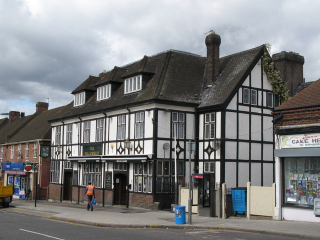 The Fellowship, Randlesdown Road, SE6